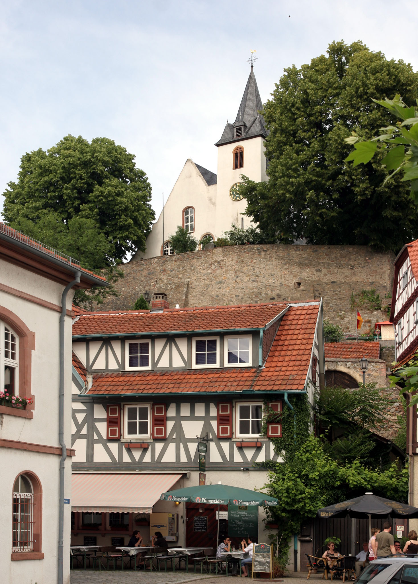 The protestant church of Zwingenberg (Hesse, Germany).